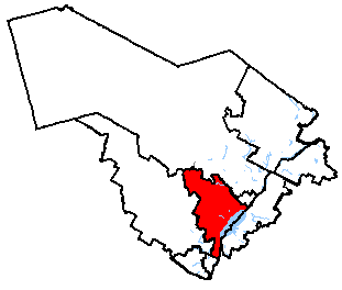 Berthier-Maskinongé riding